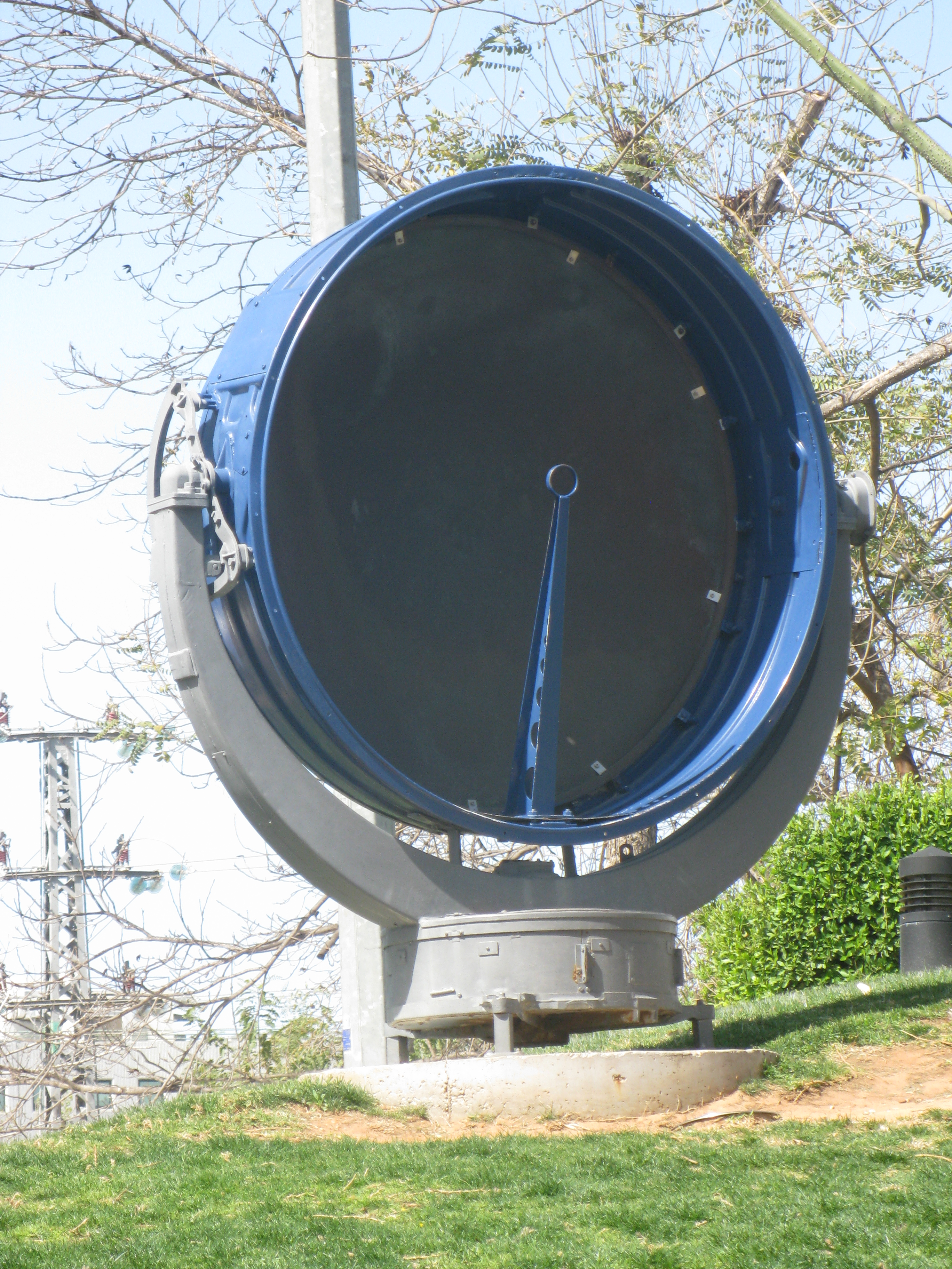 The Weizmann Institute - Clore Garden of Science - מכון ויצמן - גן המדע על שם קלור Vioce Mirror